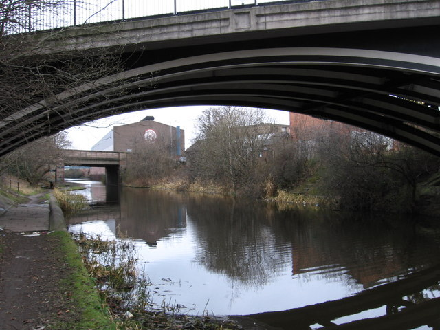 Attercliffe - Staniforth Road Bridge In this photo, the road bridge is framed by the arch of the tram bridge over the Sheffield & Tinsley Canal.